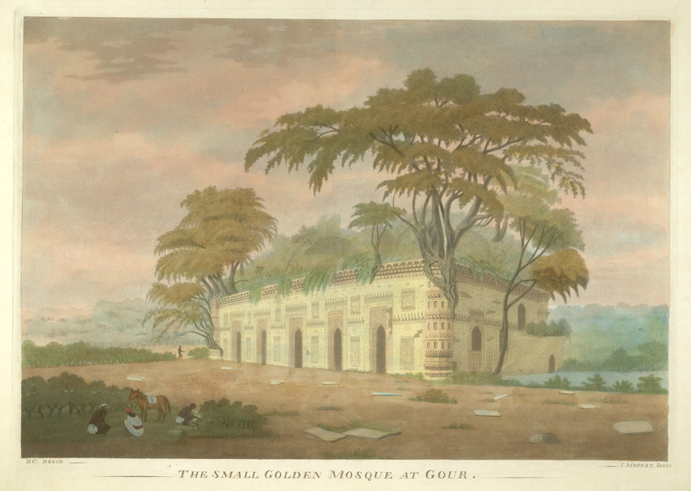 Golden mosque now located at Chapai Nawabganj